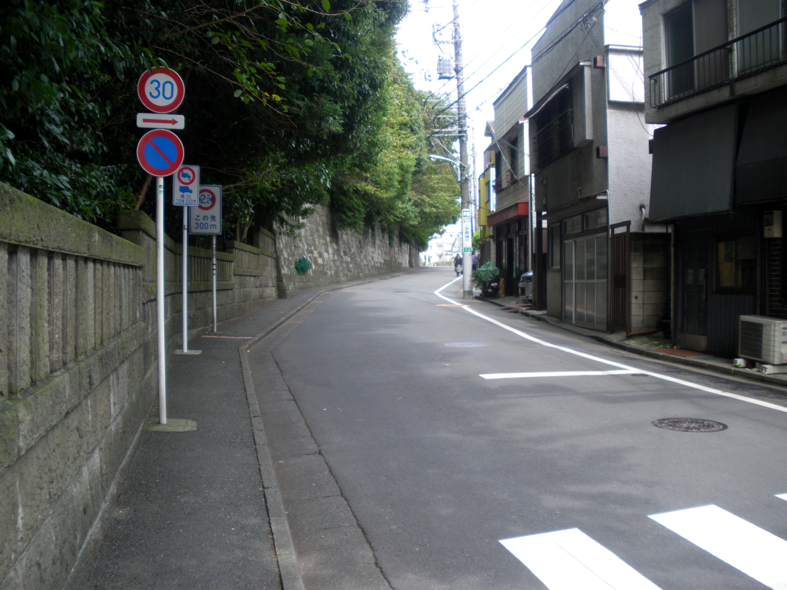 Miyasaka Slope(Setagaya,Tokyo)